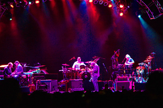 Widespread Panic at the Vegoose Music Festival, October 29, 2006, by photographer Steve Hopson. See more photos at: and more Widespread Panic photos. Use of this photo requires attribution. Please credit, Steve Hopson Photography, .